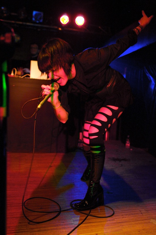 Tying Tiffany Live at Magnolia (Milan)